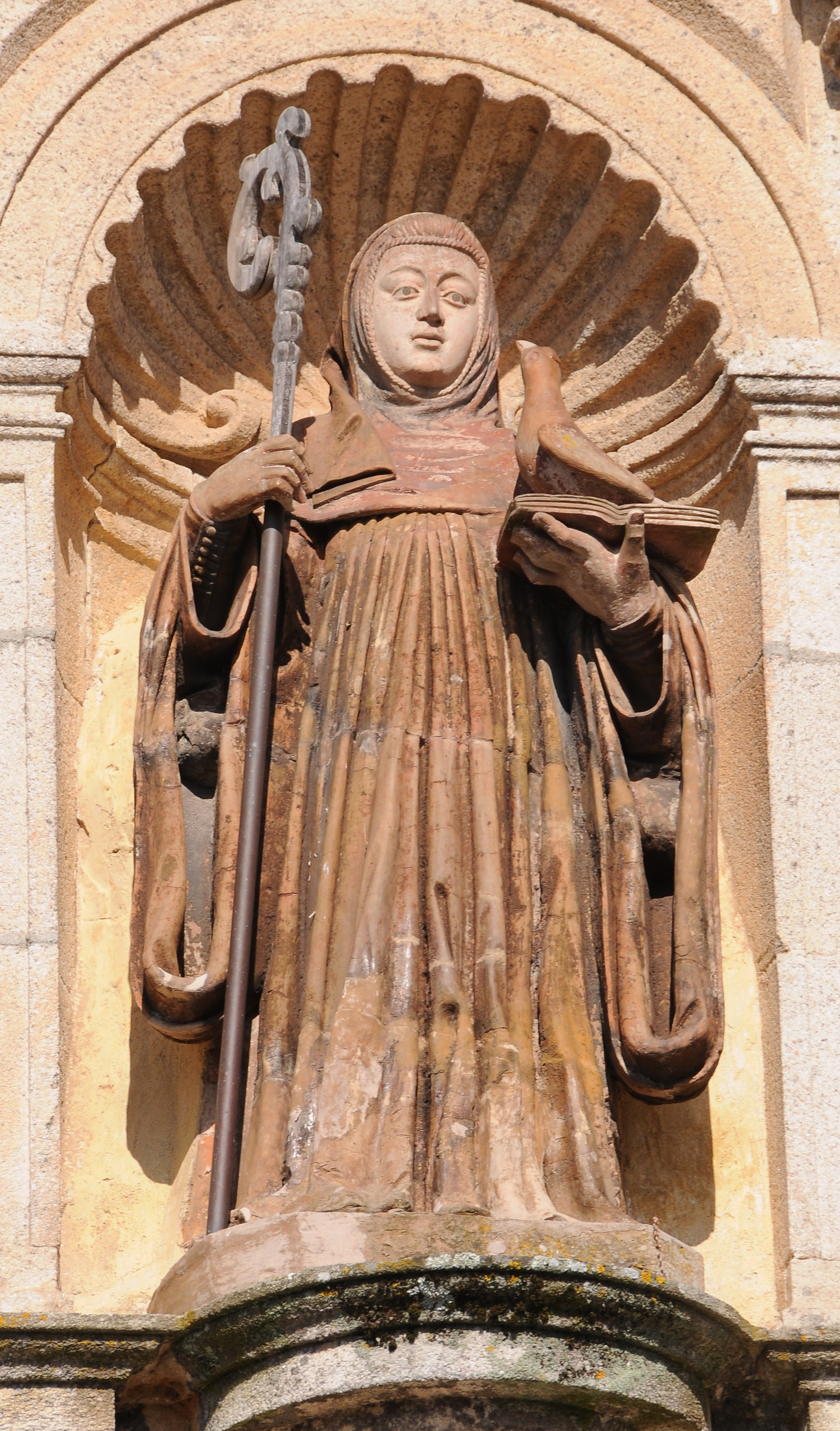 Statue of Saint Scholastica in the main façade of Tibães Monastery in Braga, Portugal